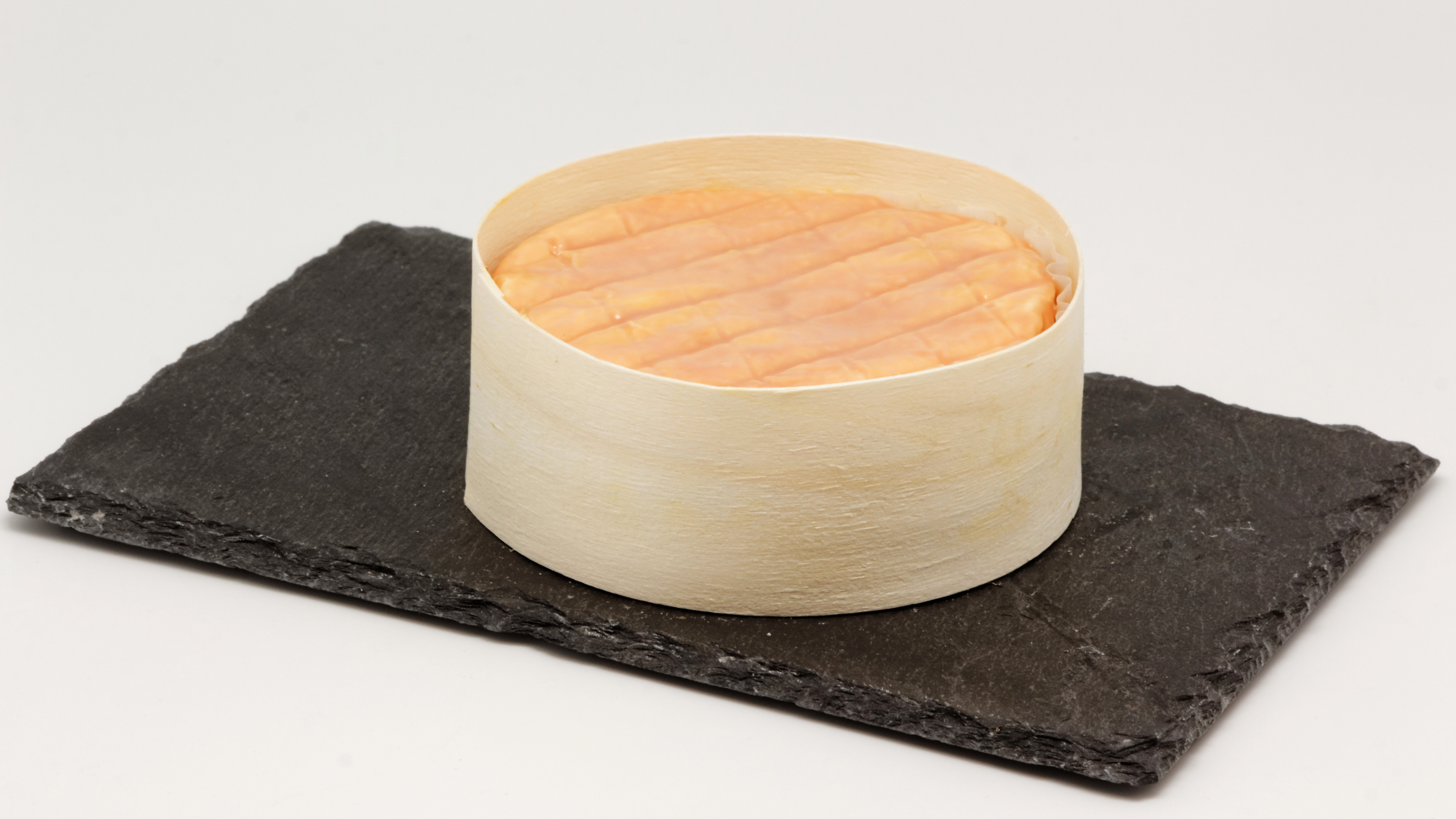 Époisses Gaugry (cow's milk cheese)